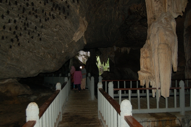 View inside the Bat Cave (Gua Kelawar) in Langkawi